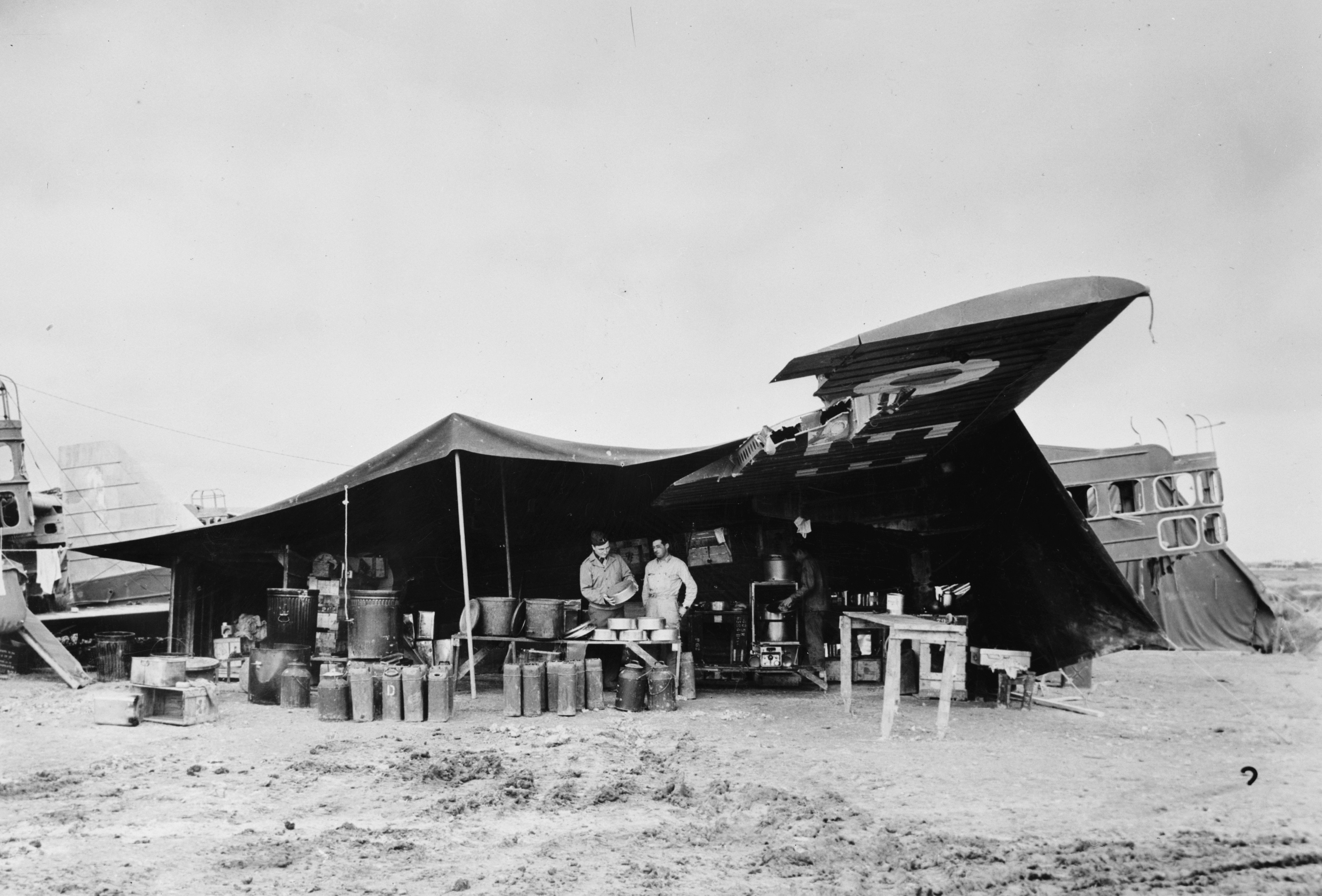 A U.S. field kitchen constructed under the wing of an derelict French Bloch MB.200 bomber in North Africa, 1943.Original caption: "With the aid of a little canvas, and an obsolete French bomber, an American task force has set up a very practical mess kitchen in North Africa. Left to right are Lieutenant E. T. McBoon of Canton, Illinois, and Ssergeant C. W. Moore of Houston, Texas, inspecting the kitchen. Corporal William G. Warrington, a cook from Jefferson, Texas, is preparing the meal."